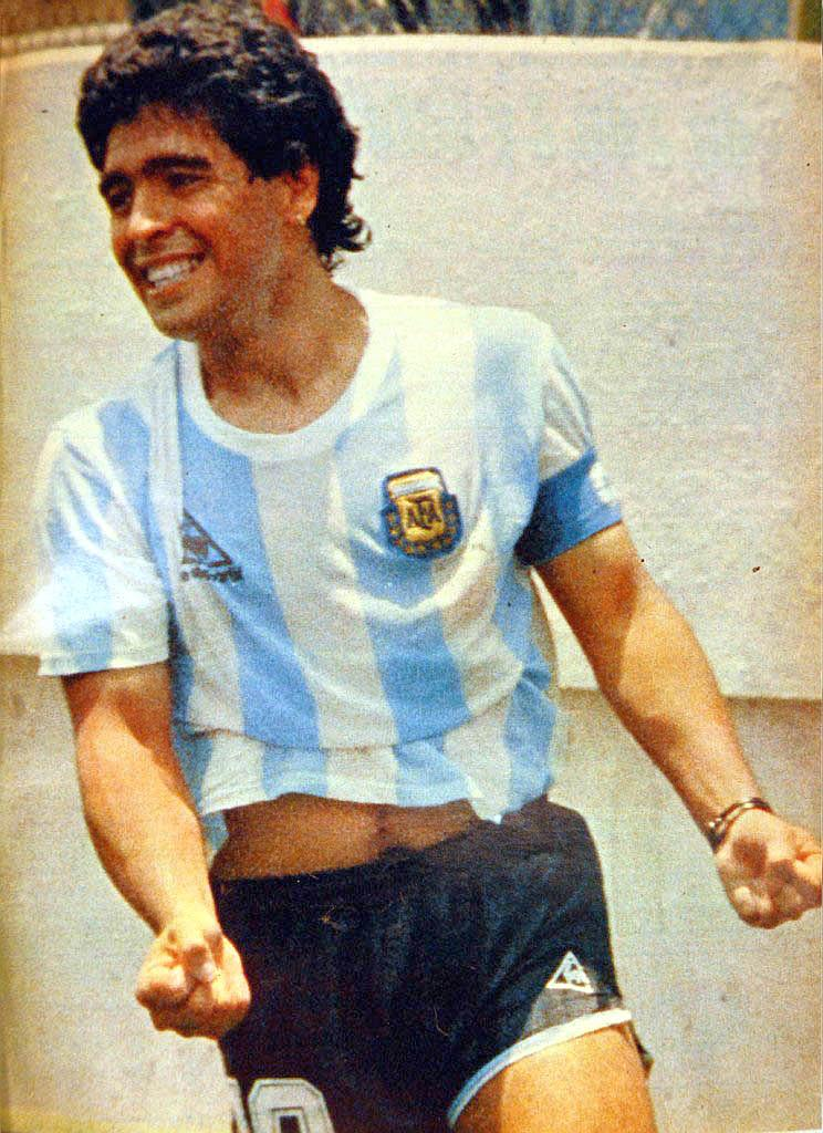 Diego Maradona celebrates his goal v. Italy at the 1986 FIFA World Cup.